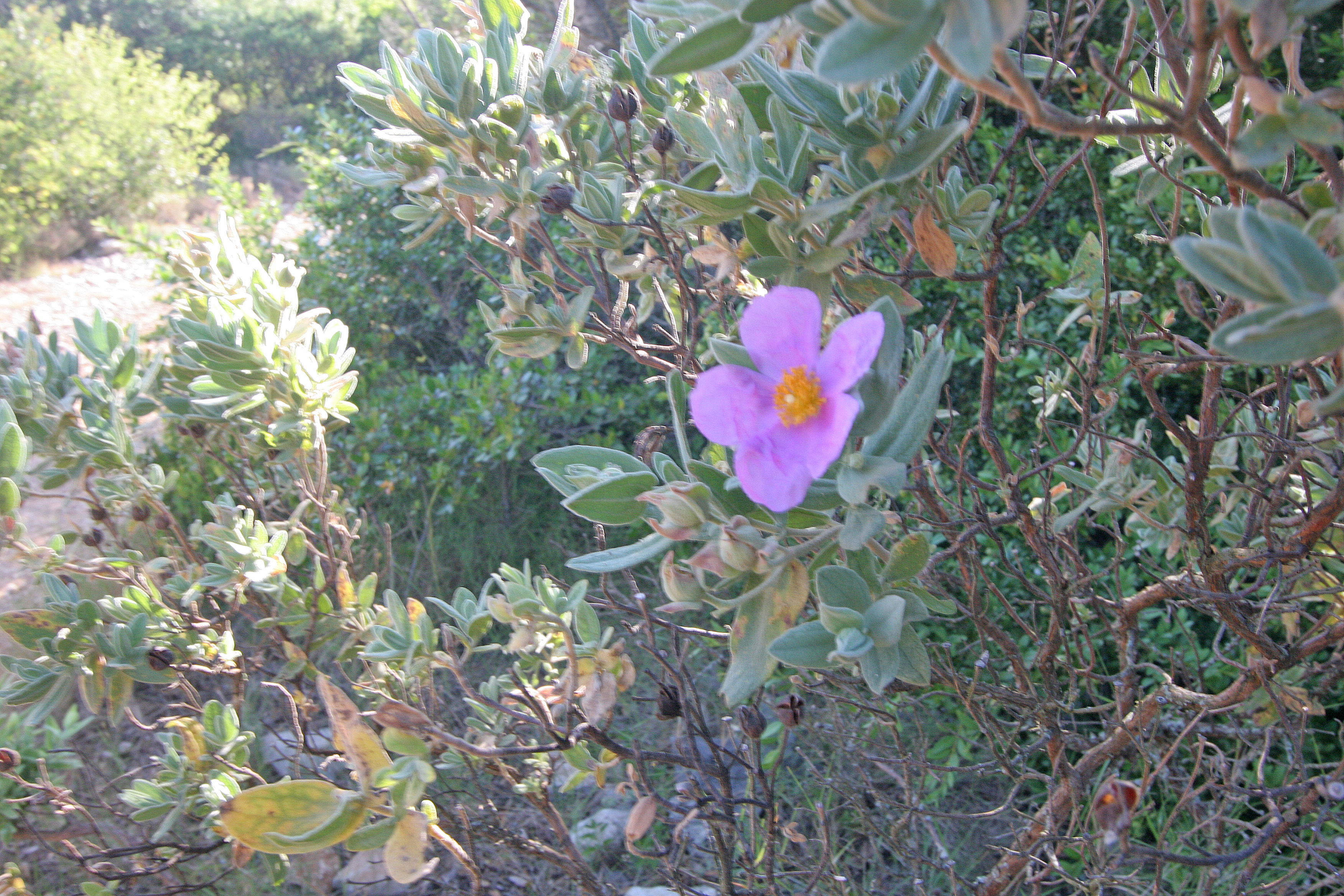 Plants in Ardeche